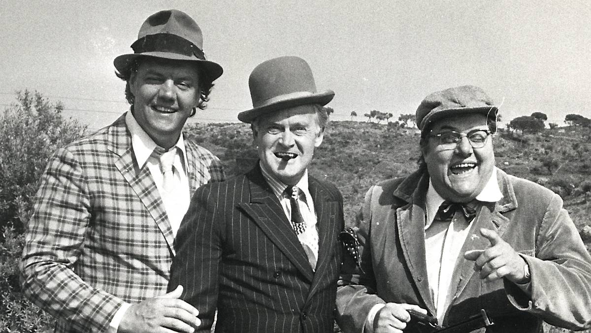 From Mallorca, location used for the movie "Olsen Bandens Sidste Bedrifter". Actors are Morten Grunwald, Ove Sprogøe and Poul Bundgaard. 1974.